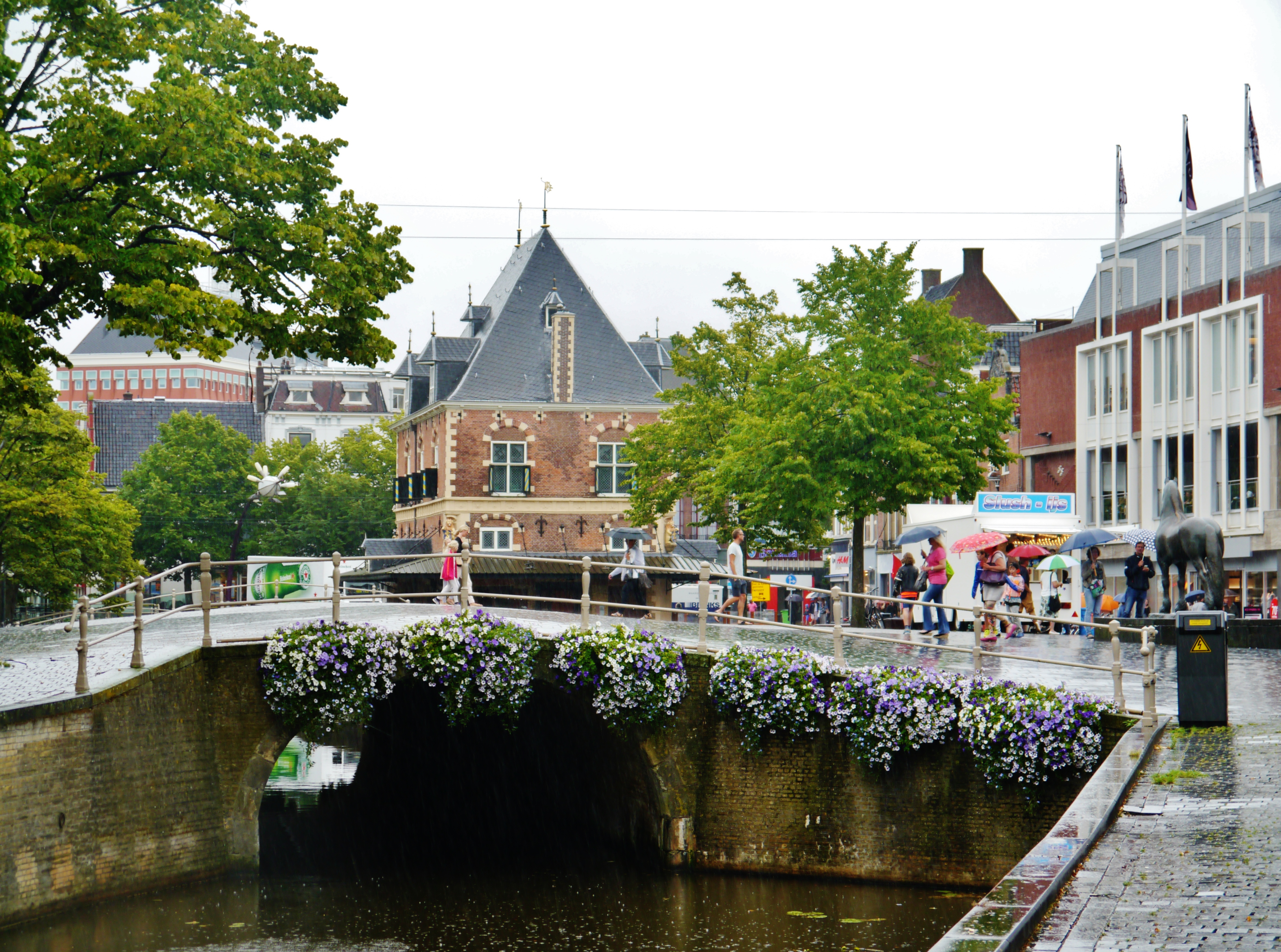 Canal in Leeuwarden, Province of Friesland, Netherlands